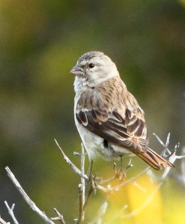 A female Black-headed Canary at Namaqua National Park, Northern Cape, South Africa.